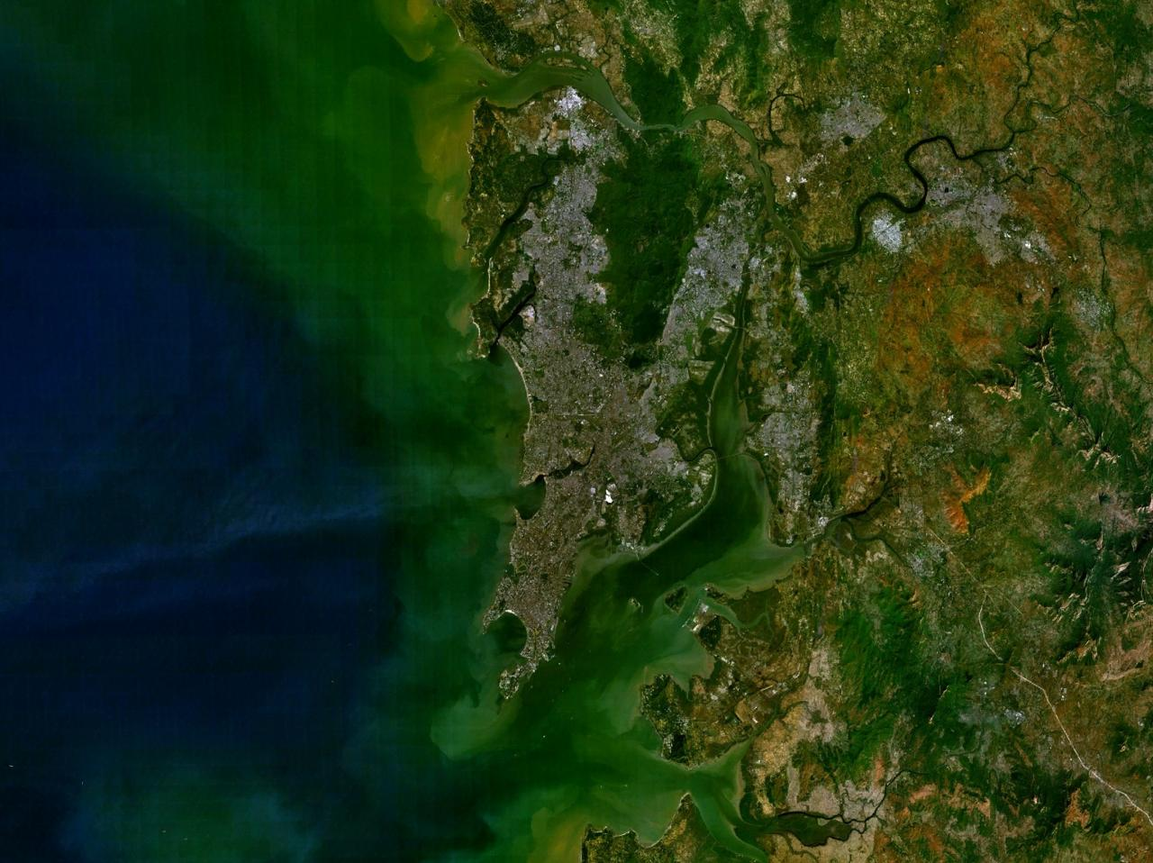 Bombay, India. Satellite view.